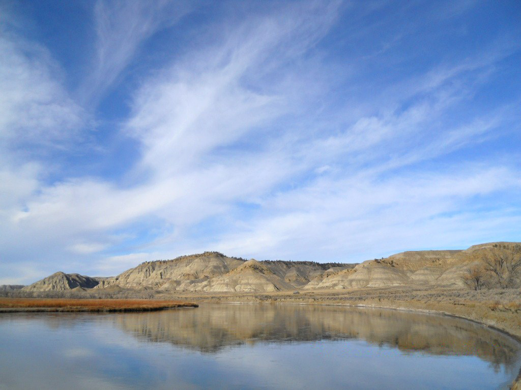 In the middle of the photo is the upper Cow Island Landing of the Missouri River in Montana, above the mouth of Cow Creek. Here the river is deep as it flows along the north shore. Steamboats could get in close to shore to offload their cargos. Cargos were dropped at the Cow Island Landing during the steamboat era on the Missouri (1860 to mid 1880's), during the summer and fall when the river got too low for steamboats to get all the way up to Ft. Benton, 120 mile upstream. There was another lower landing site below the mouth of Cow Creek, downriver at the location of Cow island. The site of the pictured upper landing is on the river bank just in front of the Kipp Homestead buildings. Reportedly a snubbing post (to tie up steamboats) was embedded in the bank at this site for many years.